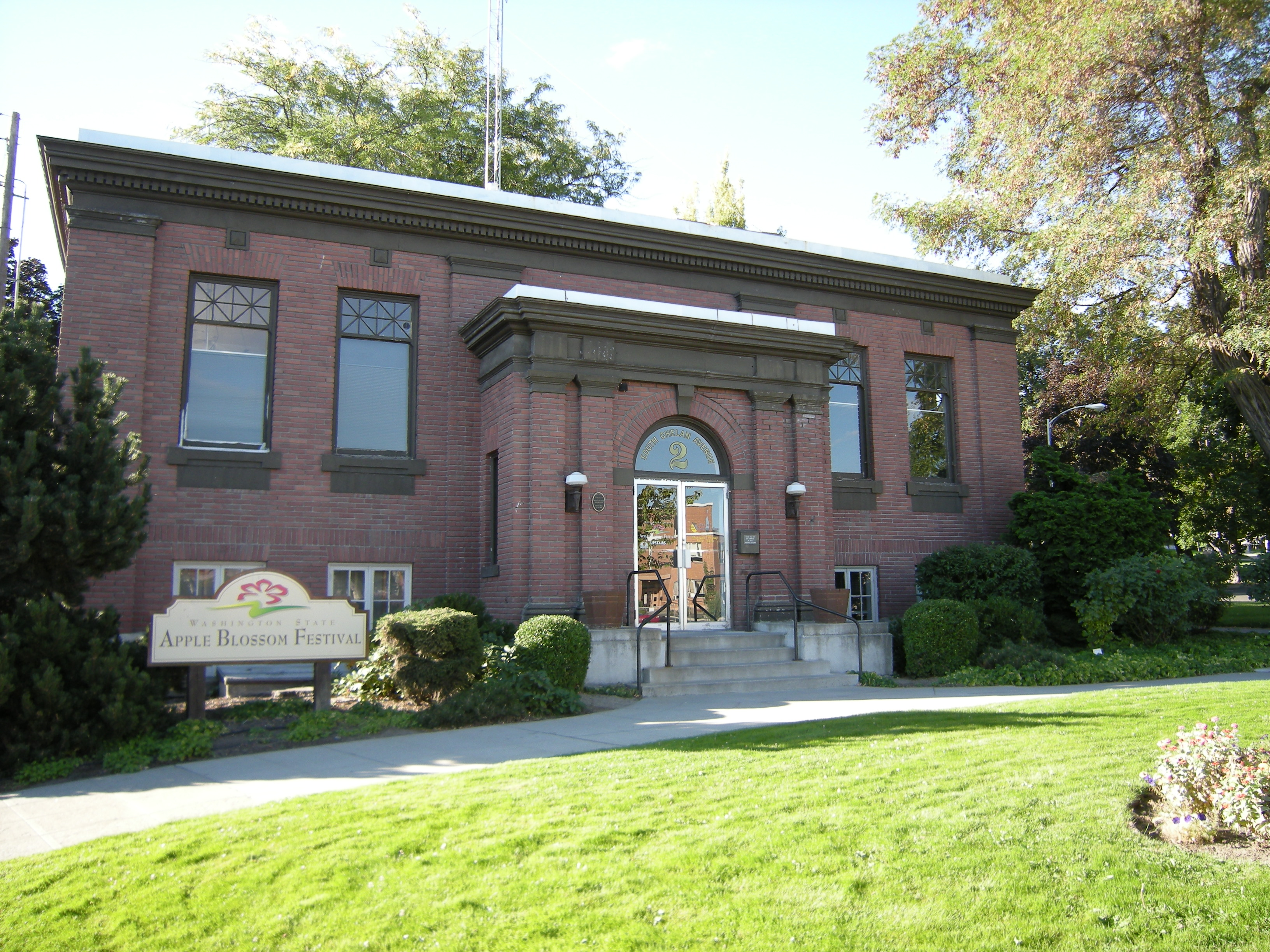 Former Carnegie Library, now Wenatchee, Washington Department of Parks and Recreation. The building is on the National Register of Historic Places.